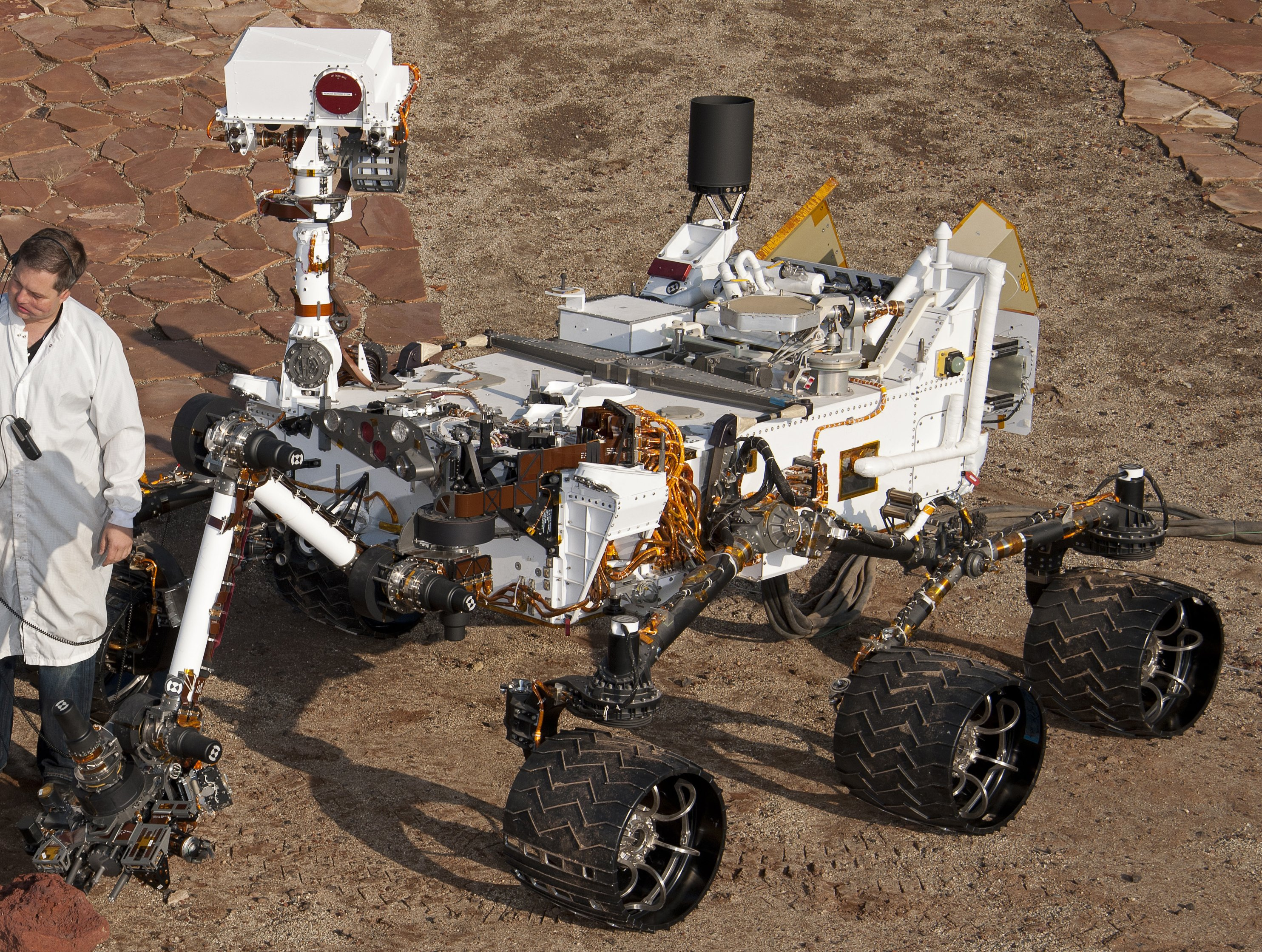 Note: Crop2 (20120923, Drbogdan) of original image at Curiosity Rover - On Earth. DESCRIPTION NOTE (by Uploader Drbogdan, 20121022): This Image is a *CROPPED IMAGE* (showing *only* a "Curiosity" rover type) from an *ORIGINAL IMAGE* (Showing "Sojourner", "Spirit" and "Curiosity" rover types) - The DESCRIPTION BELOW is for the "Original" (uncropped) Image. Two spacecraft engineers stand with a group of vehicles providing a comparison of three generations of Mars rovers developed at NASA's Jet Propulsion Laboratory, Pasadena, Calif. The setting is JPL's Mars Yard testing area. Front and center is the flight spare for the first Mars rover, Sojourner, which landed on Mars in 1997 as part of the Mars Pathfinder Project. On the left is a Mars Exploration Rover Project test rover that is a working sibling to Spirit and Opportunity, which landed on Mars in 2004. On the right is a Mars Science Laboratory test rover the size of that project's Mars rover, Curiosity, which landed on Mars in 2012. Sojourner and its flight spare, named Marie Curie, are 2 feet (65 centimeters) long. The Mars Exploration Rover Project's rover, including the "Surface System Test Bed" rover in this photo, are 5.2 feet (1.6 meters) long. The Mars Science Laboratory Project's Curiosity rover and "Vehicle System Test Bed" rover, on the right, are 10 feet (3 meters) long. The engineers are JPL's Matt Robinson, left, and Wesley Kuykendall. The California Institute of Technology, in Pasadena, operates JPL for NASA. Date 15 December 2011 Author NASA